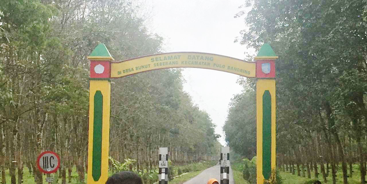 welcome gate to Bunut Seberang, Pulo Bandring, Asahan